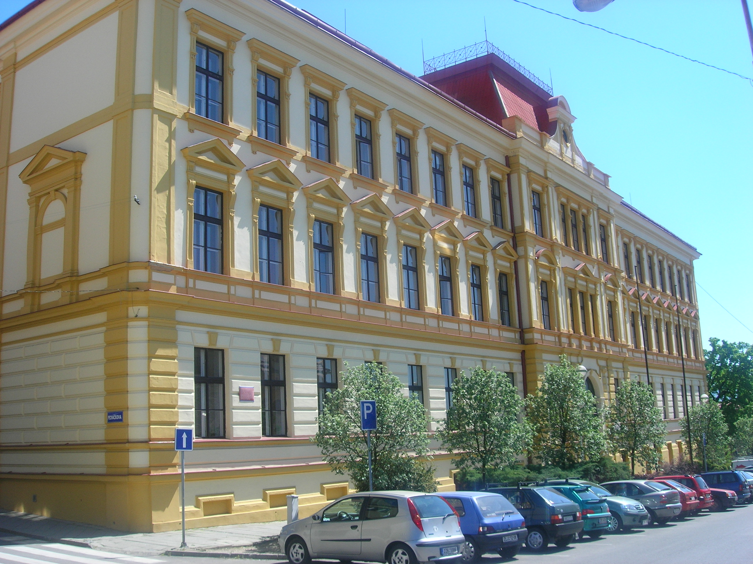 Secondary school in Uhersky Brod, Czech Republic